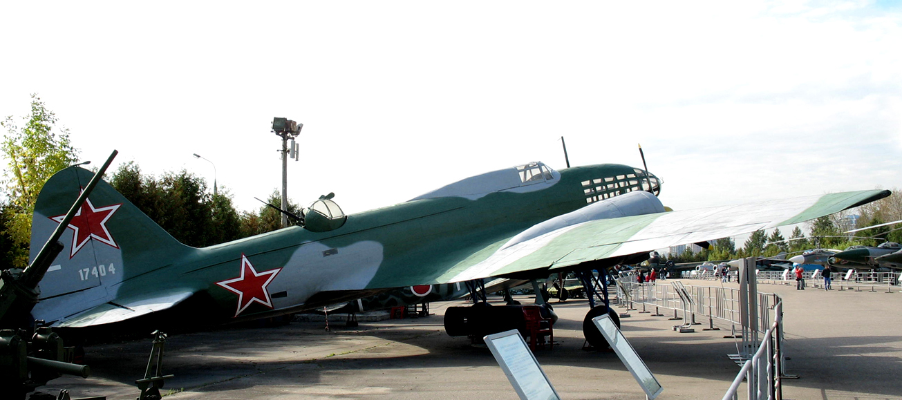 Distant bomber Ilyushin Il-4 (DB-3F). Works number 17404. Has made emergency landing around village Muravejka of Anuchinsky area of Primorski Territory. It is found by group of military-sports club "Search". It is restored by Aviation-restoration group under the direction of O.J.Lejko. It is transferred a Central museum of the Great Patriotic War (Moscow) in August, 2004